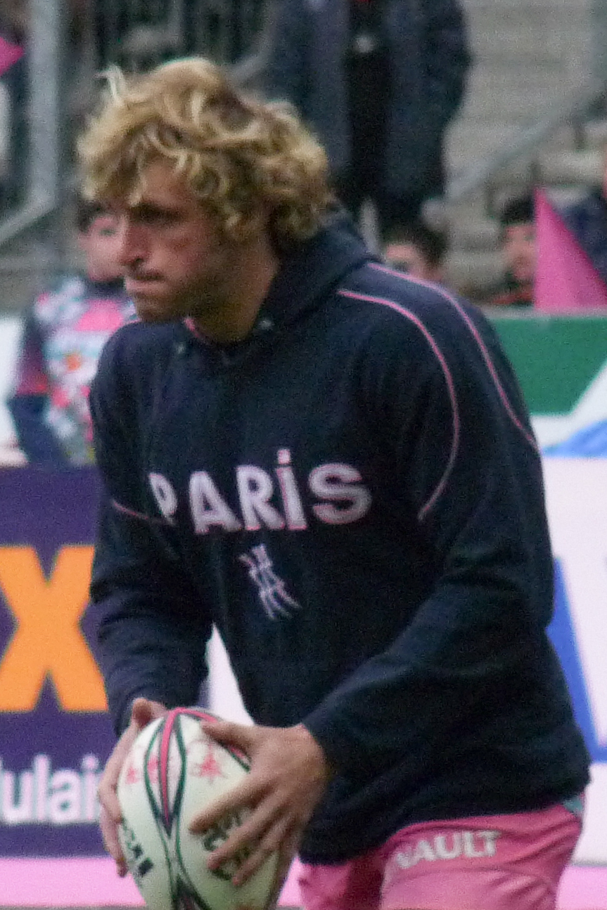 Italian rugby union player Mirco Bergamasco warming up before a Stade Toulousain - Stade Français of 2009-10 Top 14